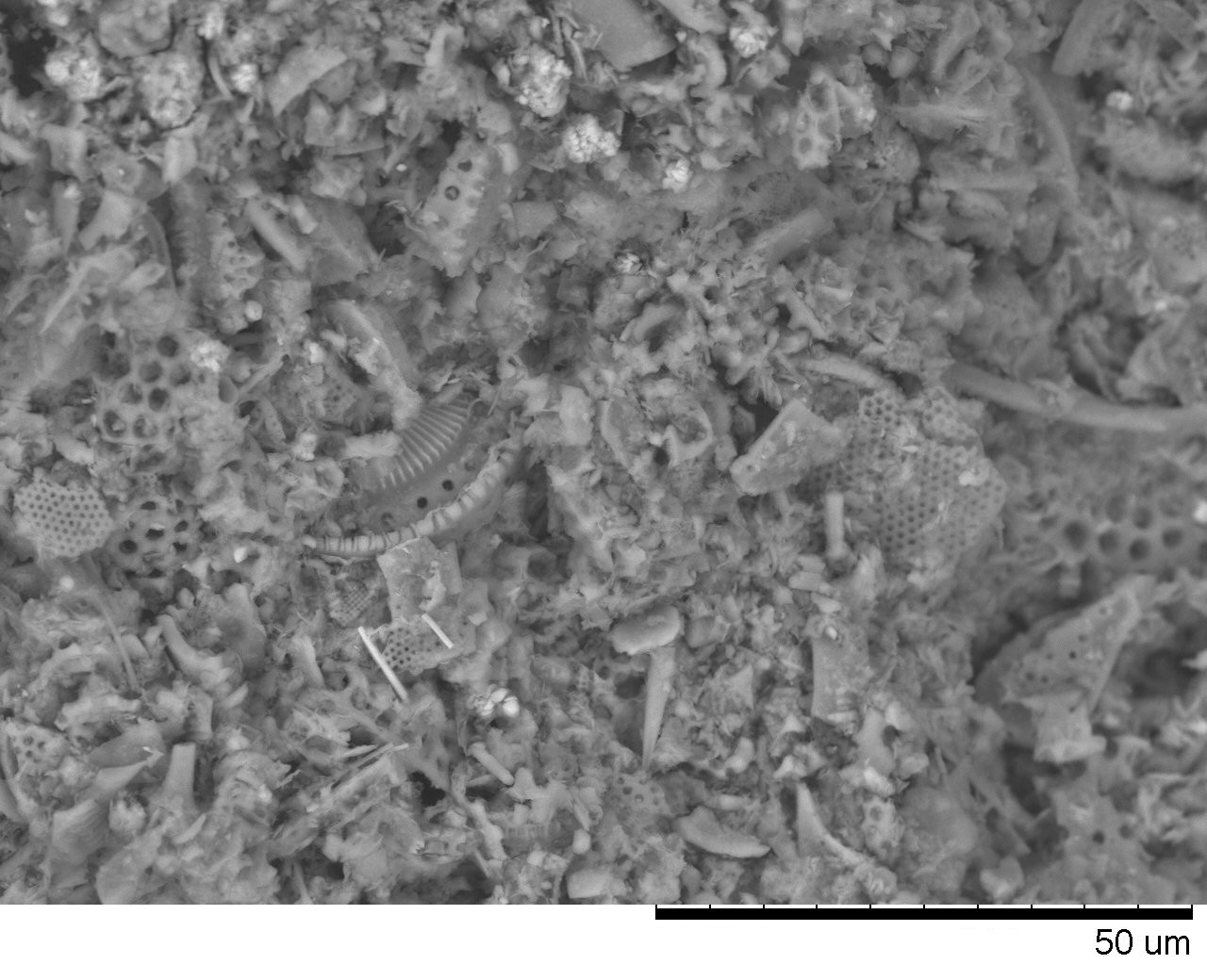 Cat litter microstructure. Different Diatomaceous Earth species were found.